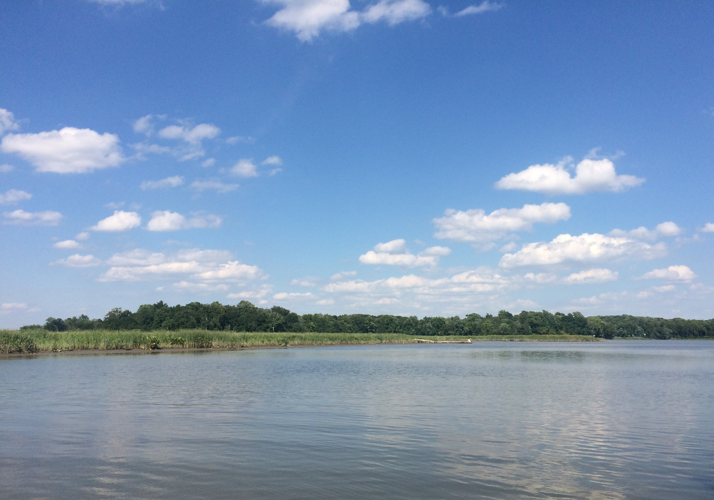 Photo of the Elk River near Elkton, MD.